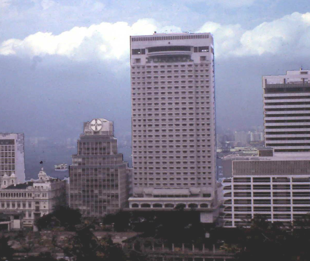 derivative of File:Central from inland.jpg